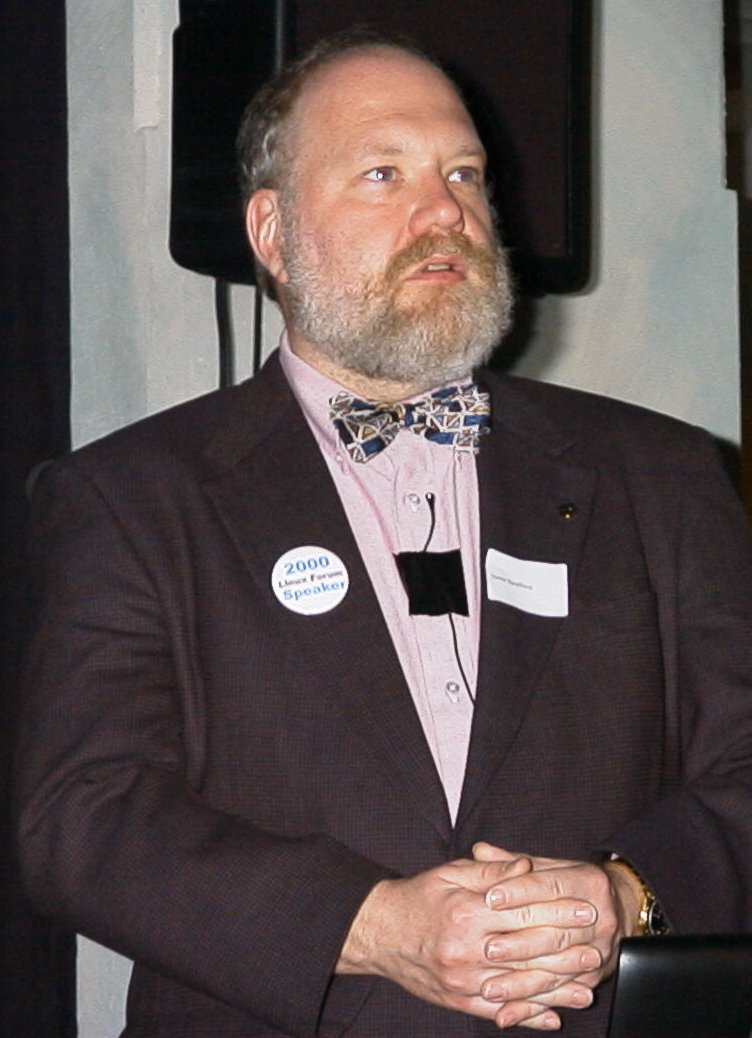 Gene Spafford talks about computer security at in Copenhagen, Denmark. Photographer: Hans Schou.